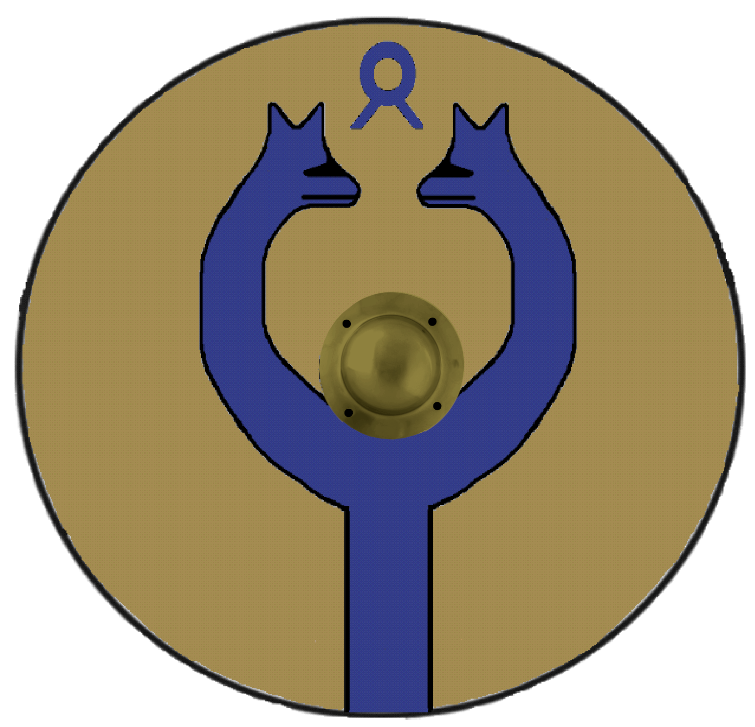 Shield pattern o.t. Vindices, a unit of auxilia palatina under the command of the second Master of the Soldiers in the Imperial Presence; it is the 9th unit of auxilia palatina is his list. ND Or, 5th century (Bodleian Manuscript).